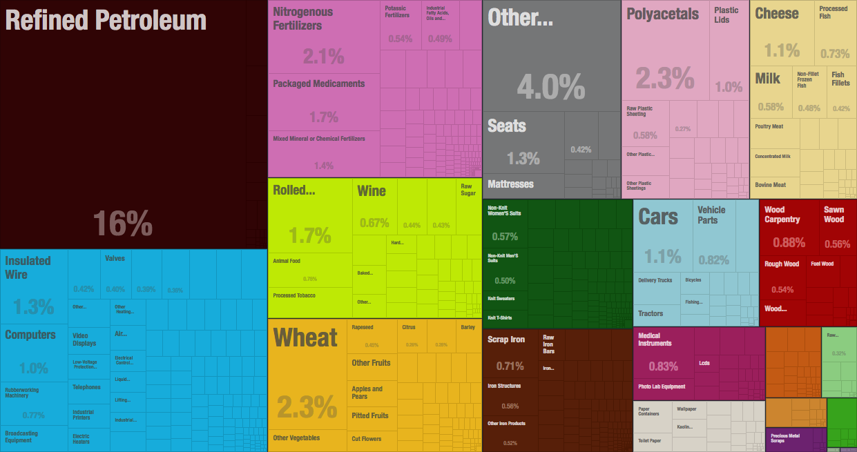 Lithuania Export Treemap 2014